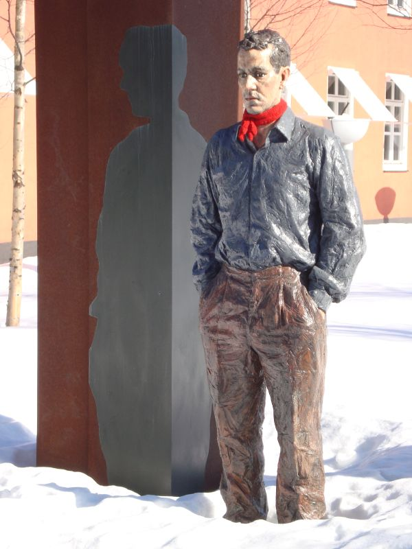 Umeå sculpture park/Sweden with Trajan's Shadow (2001) by Sean Henry.